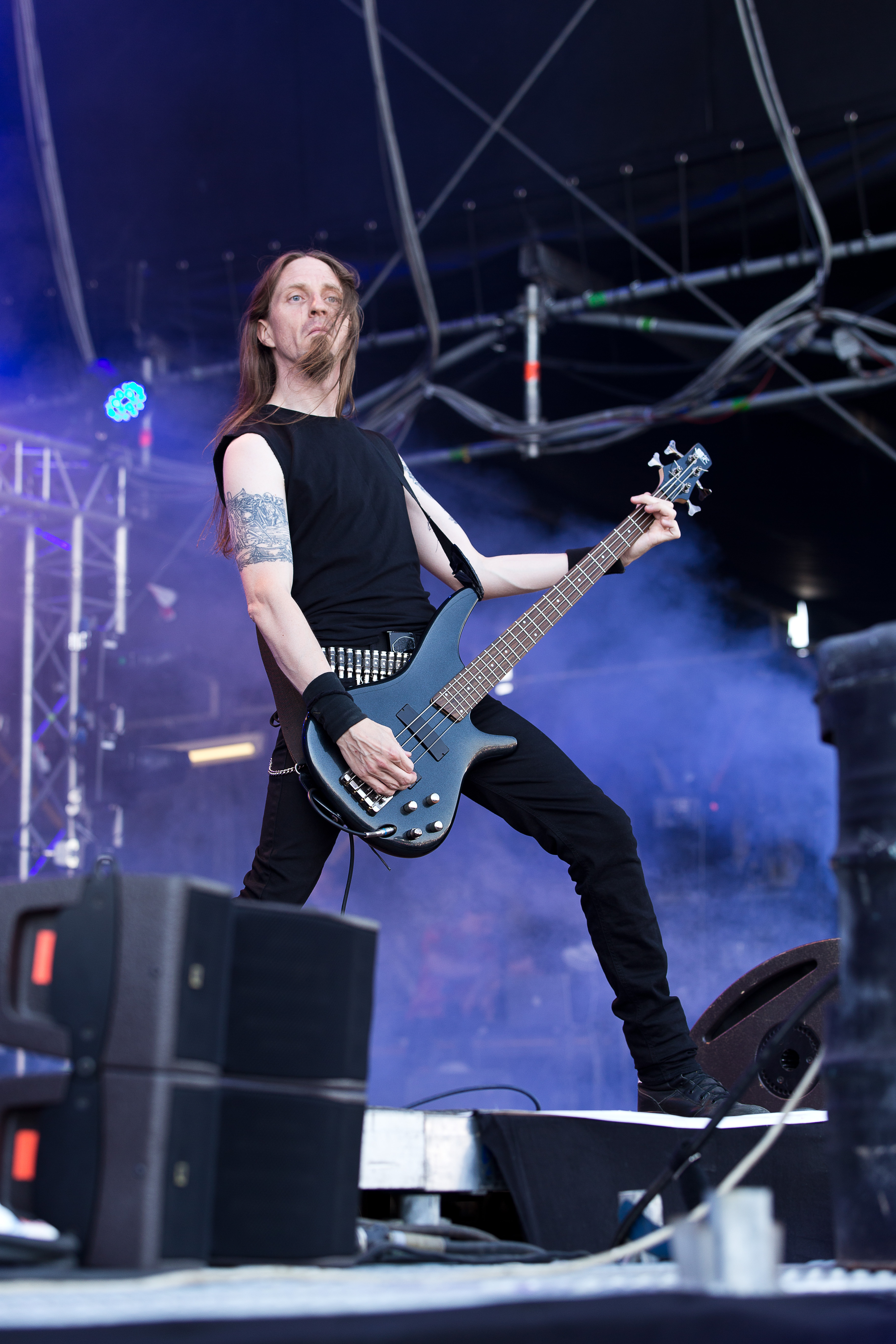 The Swedish death metal band Vanhelgd at the Party.San Open Air 2015 in Obermehler-Schlotheim/Germany.